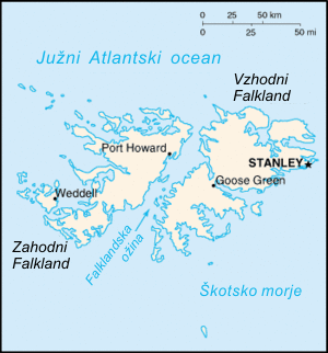 Slovene version of Falkland Islands map.